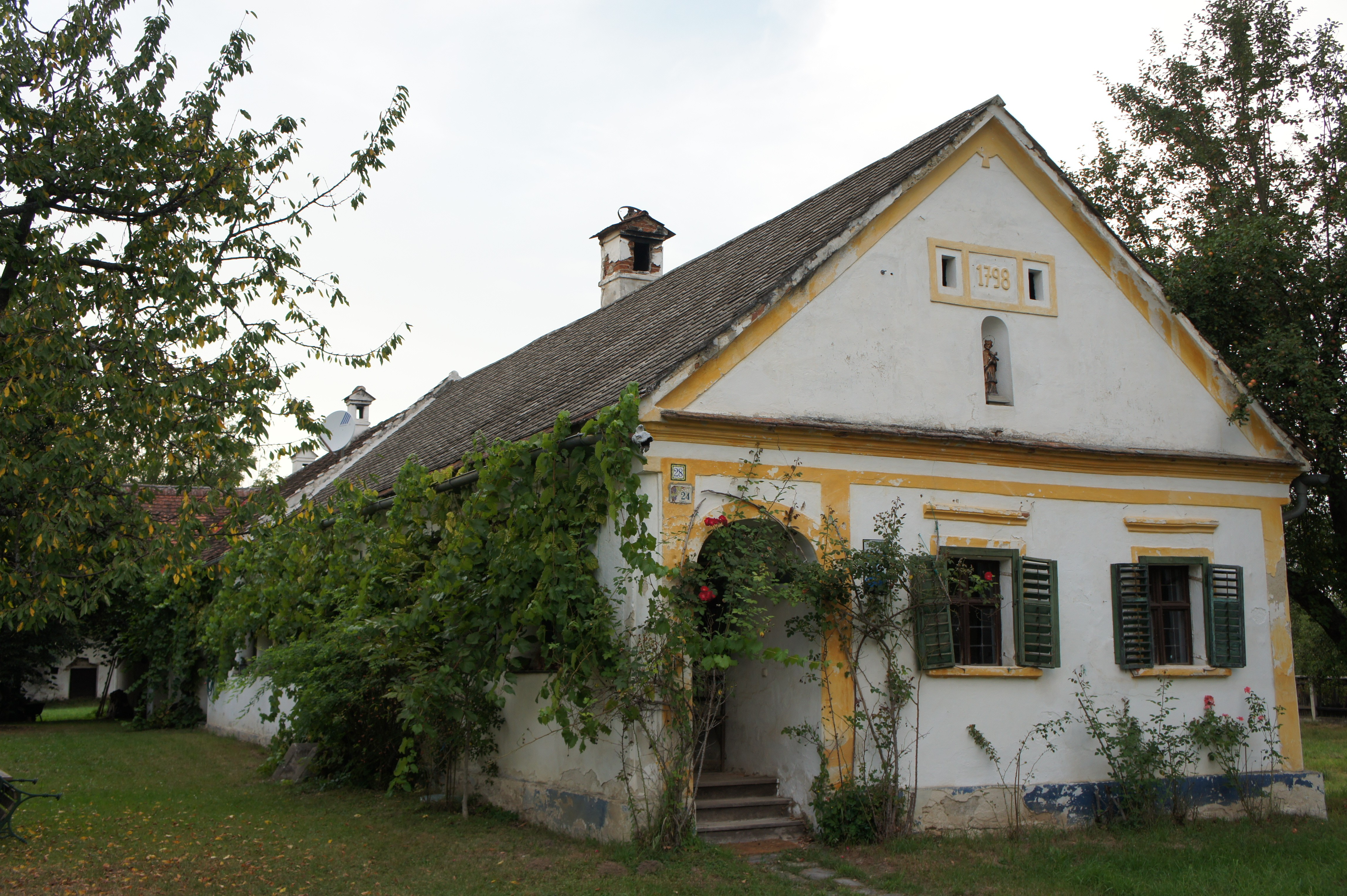 Farmhouse, Jabing, Austria